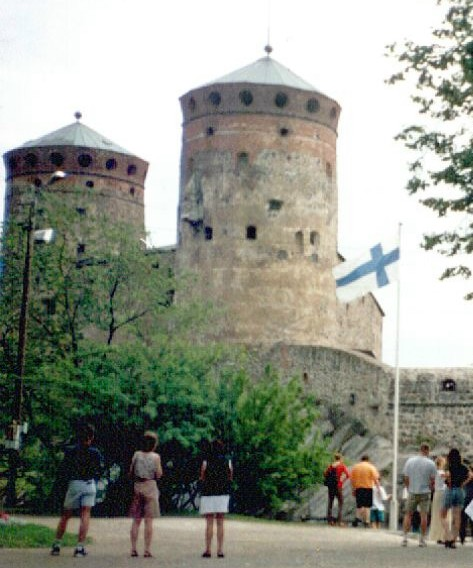 Olavinlinna castle in, Savonlinna, Finland in 1998